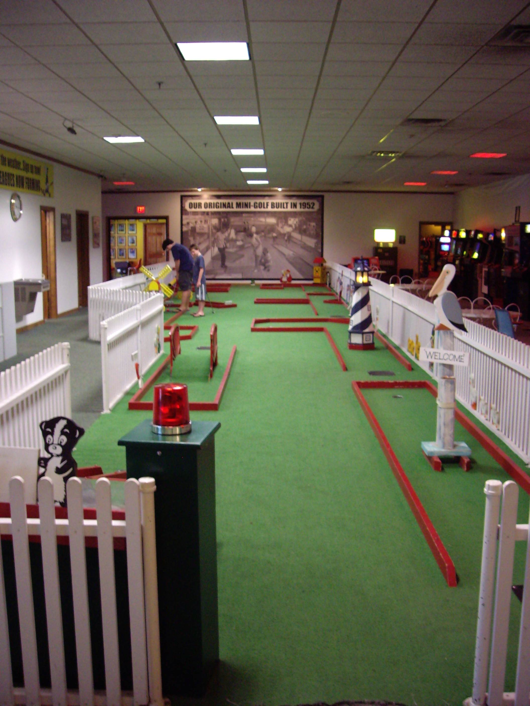 Indoor mini golf at Funspot